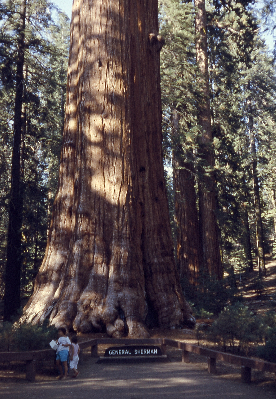 The base of the General Sherman Tree in Sequoia National Park--the world's largest tree. Taken with a 35mm Exakta VX, using Ektachrome slide film.